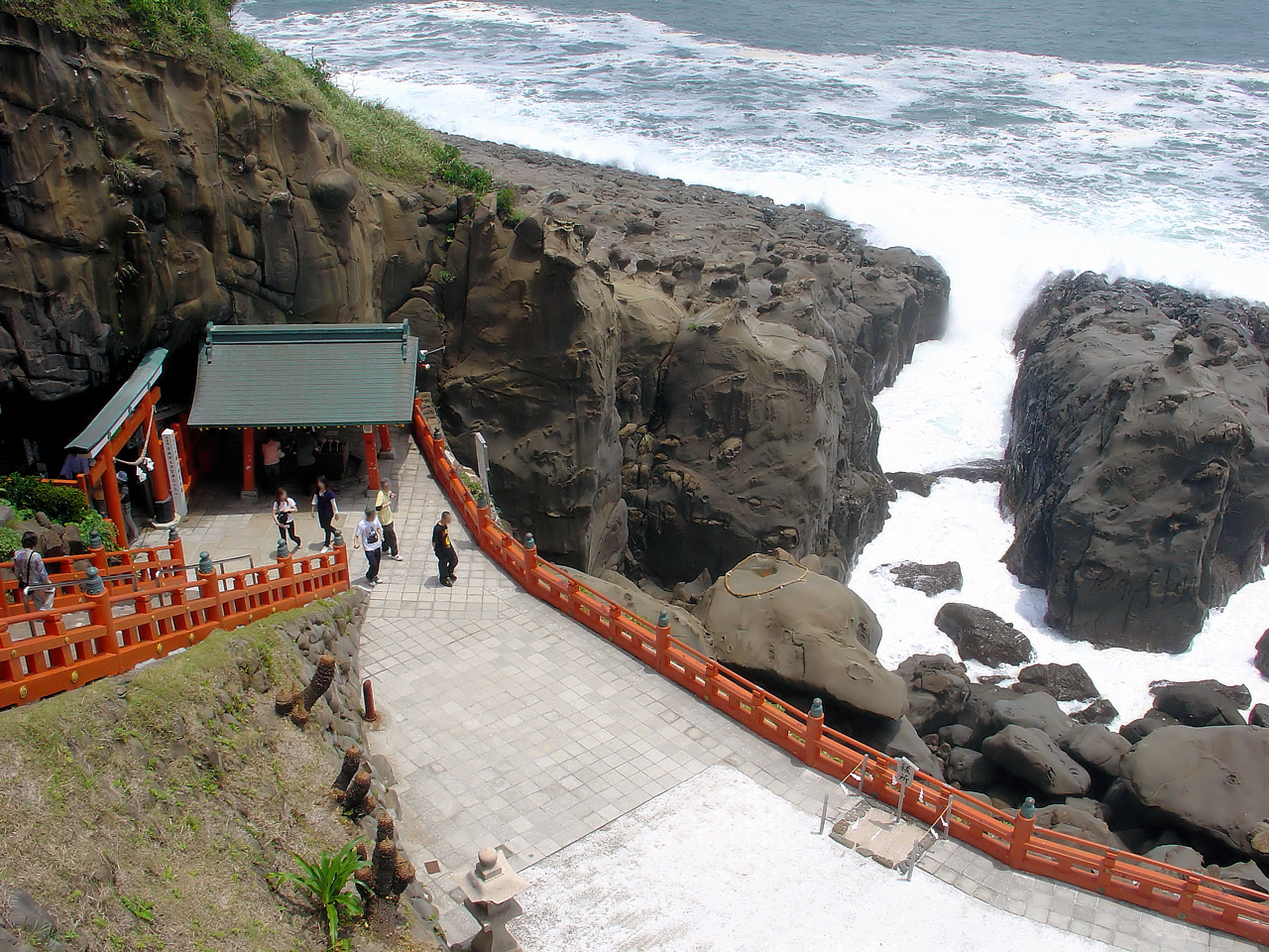 Udo-jingu Shrine, Taken at Nichinan City, Miyazaki Prefecture, Japan.